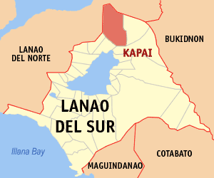 Map of the Lanao del Sur showing the location of Kapai